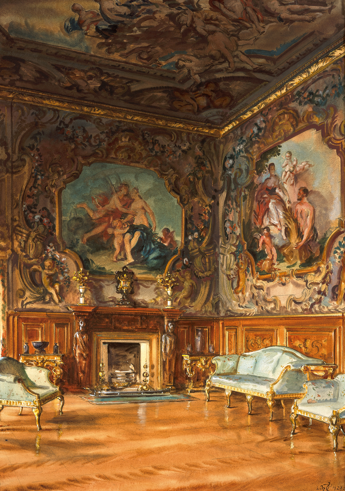 Ranken, William Bruce Ellis; The Saloon, Moor Park, Hertfordshire; City of Edinburgh Council